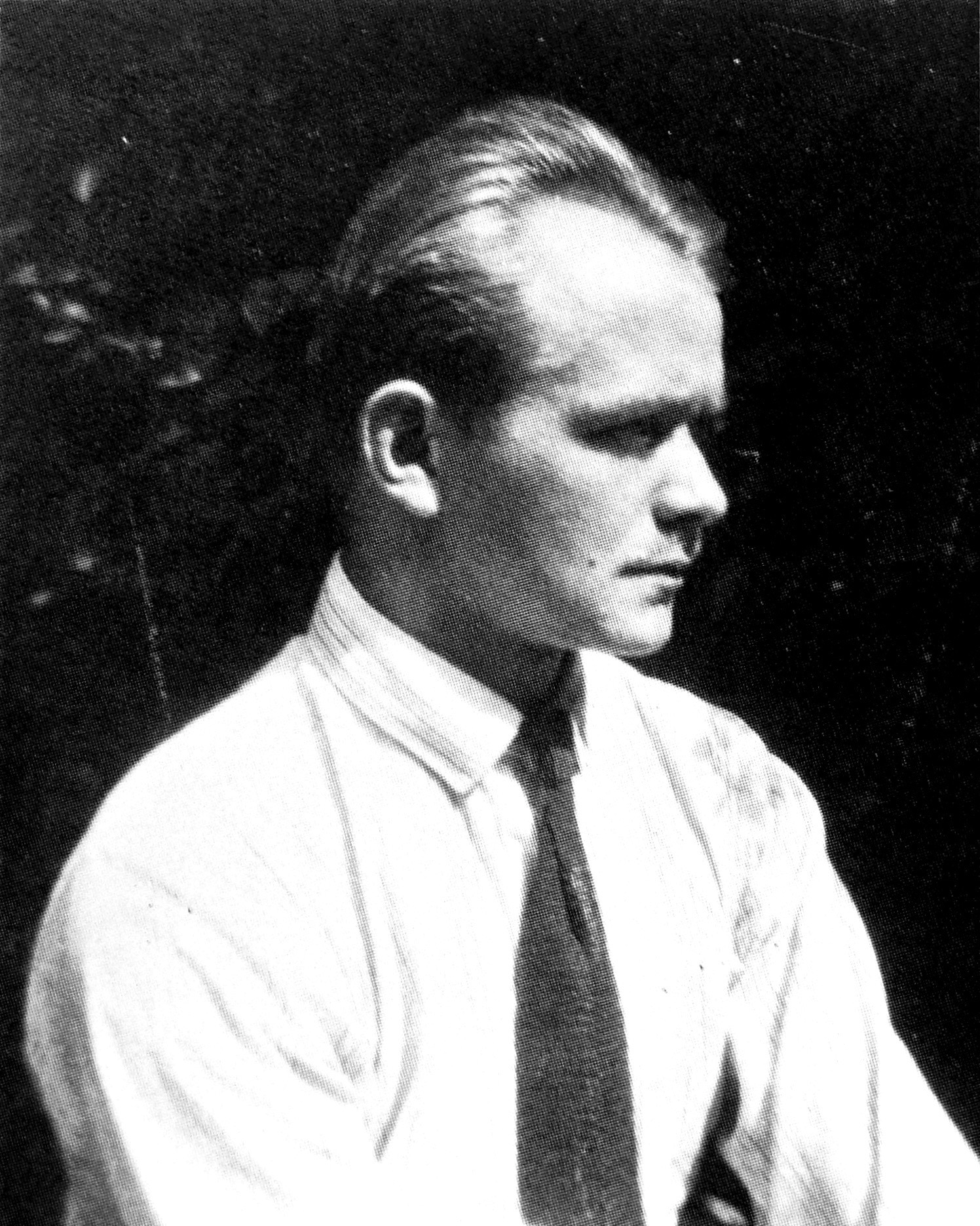 The German Bauhaus designer and lecturer Erich Dieckmann (1896–1944) during his study and apprenticeship at Bauhaus in Weimar, circa 1921.